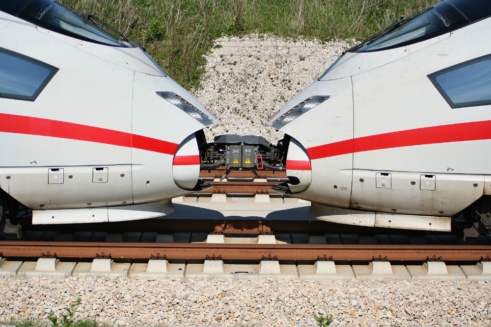 Scharfenberg couplers on two coupled Deutsche Bahn ICE 3 high-speed trains.